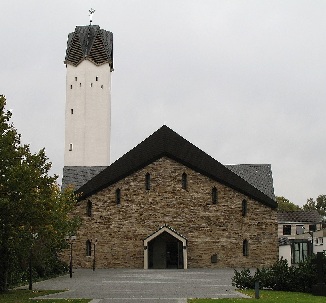 Parish and pilgrimage church St Catharina (of Alexandria) in Buschhoven near Bonn, Germany; pilgrimage to Madonna Rosa Mystica